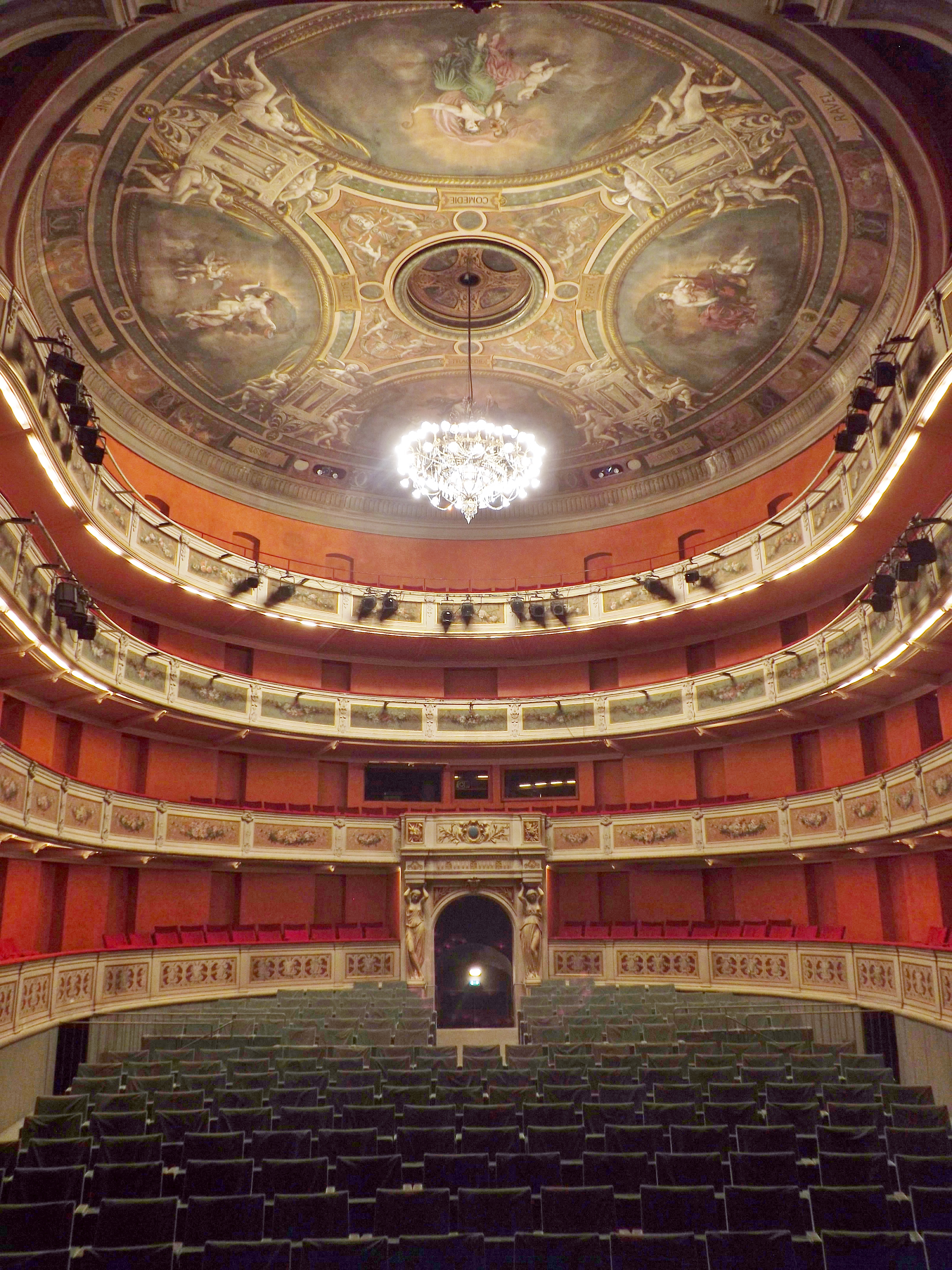 Sight of the Great Room of the Charles Dullin theater of Chambéry in Savoie, France.